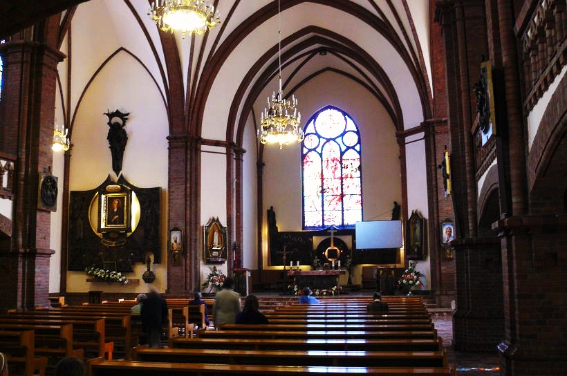 Church of St. Stanislaw Kostka in Szczecin Poland (interior).